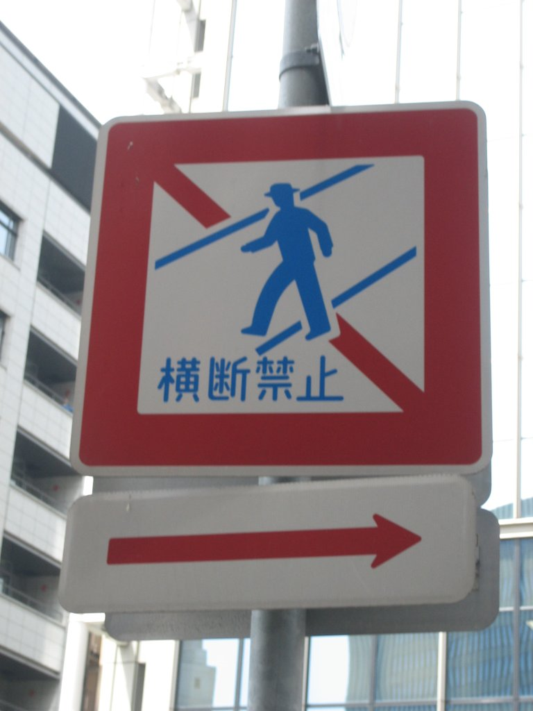 No pedestrian crossing street sign in Japan. (Text:"Ōdan kinshi")